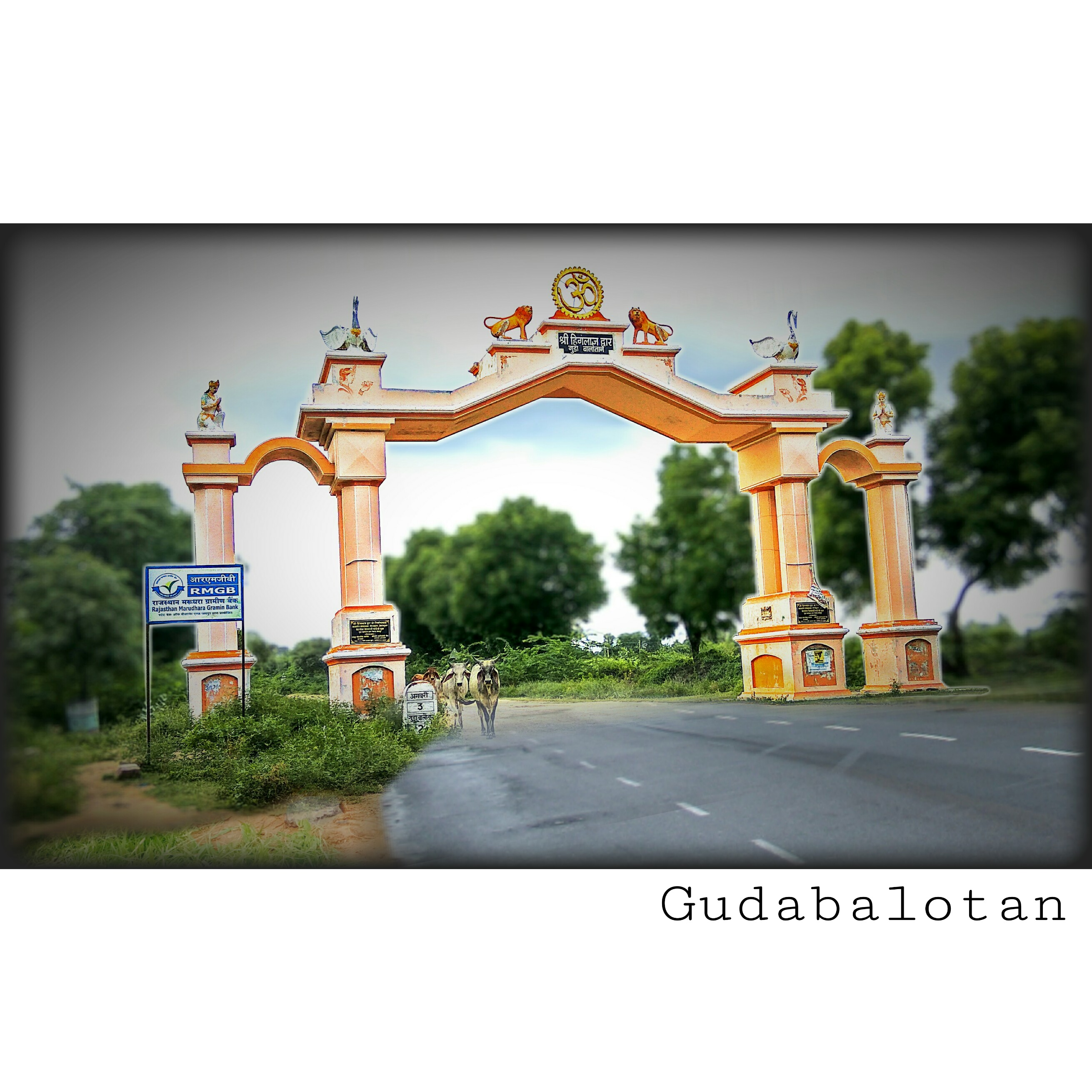 Gudabalotan Entry Gate